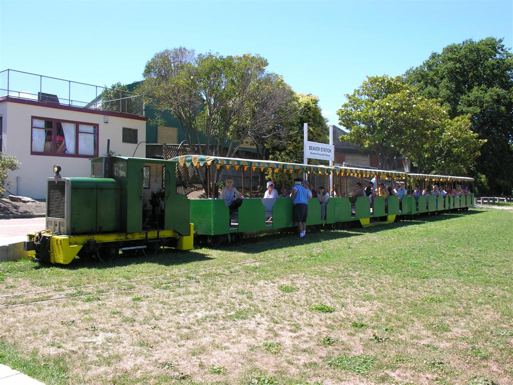 The Blenheim's Riverside Railway train at the lower terminus